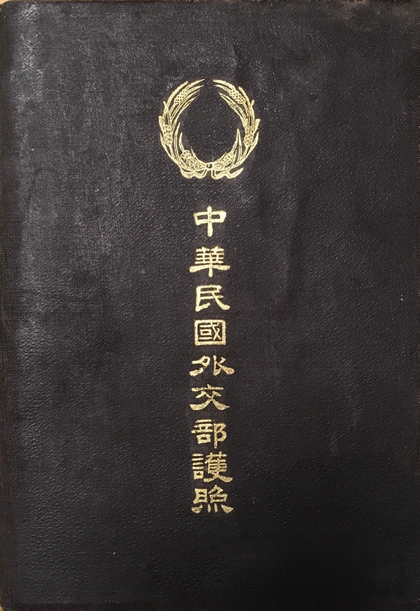 Chinese passport issued in 1920s by Beiyang government.